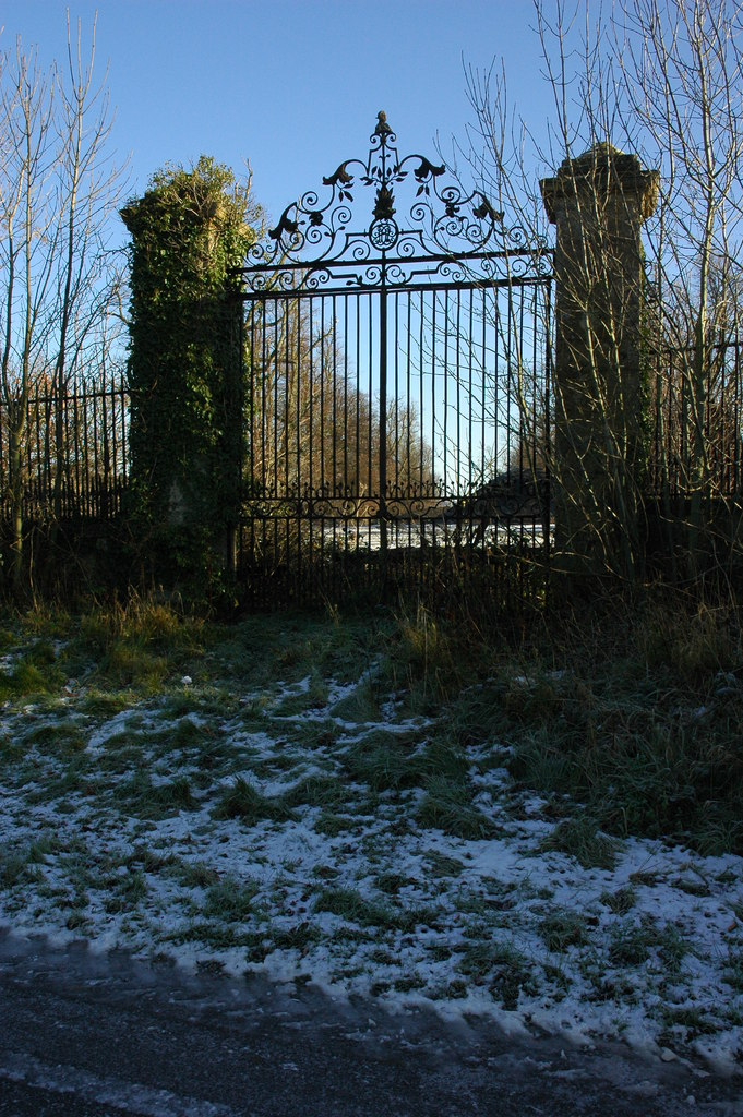 Gate to Sandywell Park